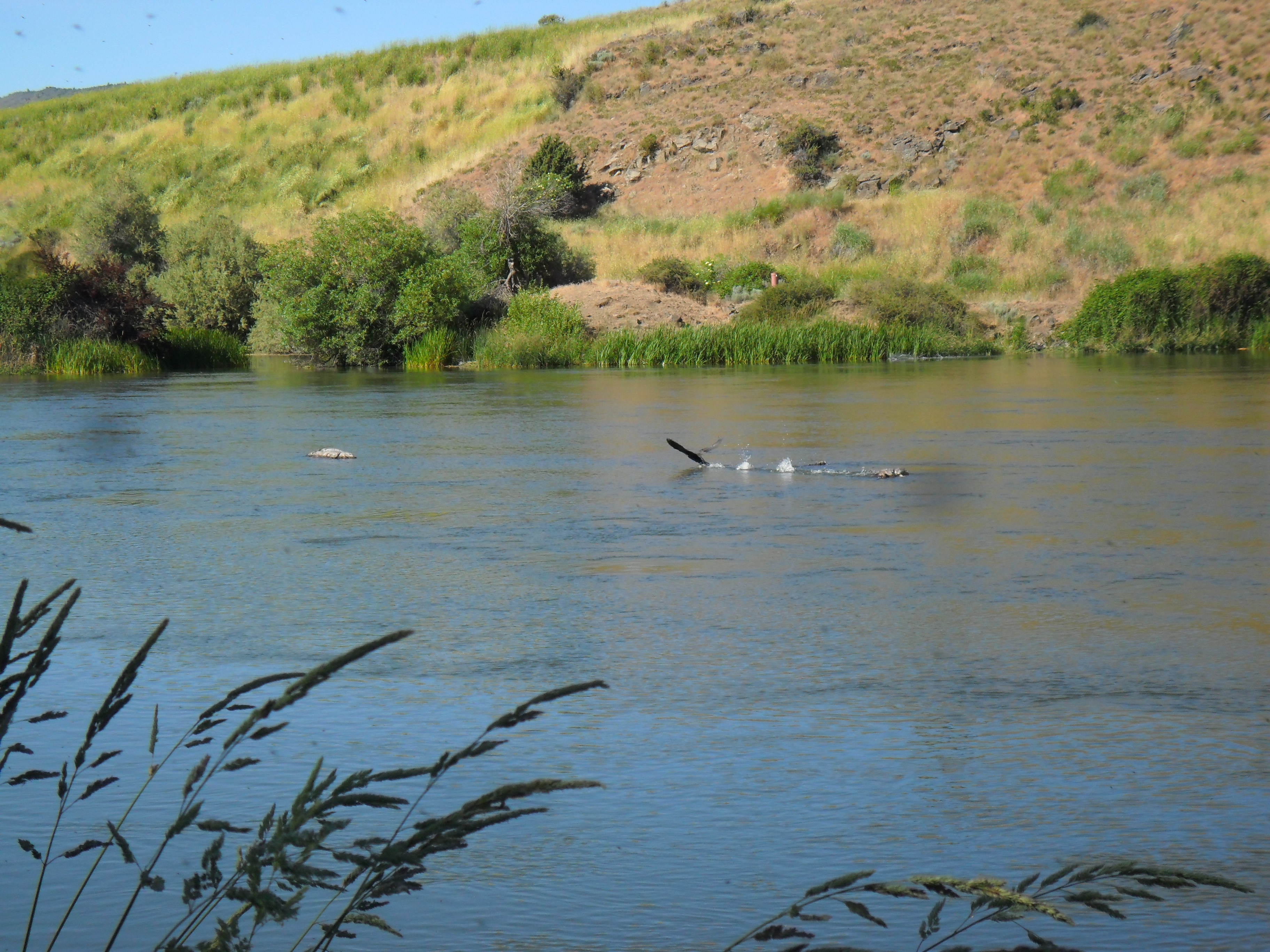 Black Heron on Link River, upstream the Link River Dam